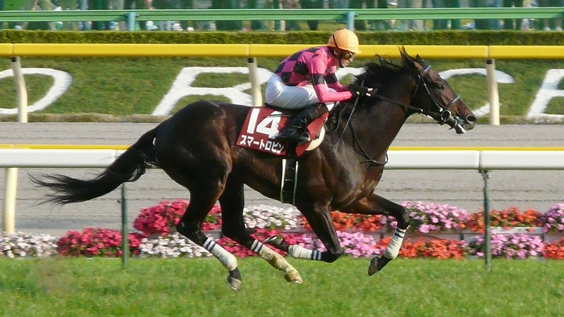 Smart-Robin20120527